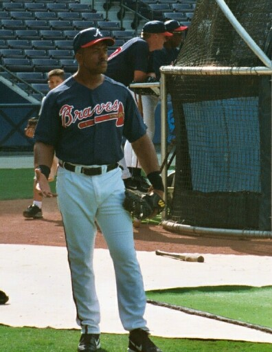 This photo was taken by user dlz28 and is released into the public domain. 17:28, 1 May 2006 . . Dlz28 . . 396×512 (89 KB)